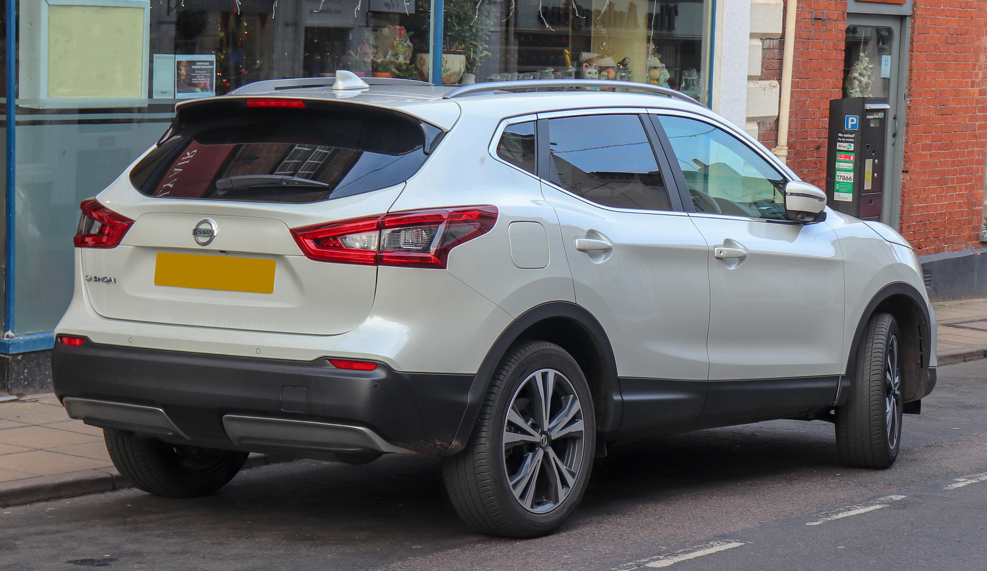 2018 Nissan Qashqai N-Connecta DCi 1.5 Rear Taken in Warwick